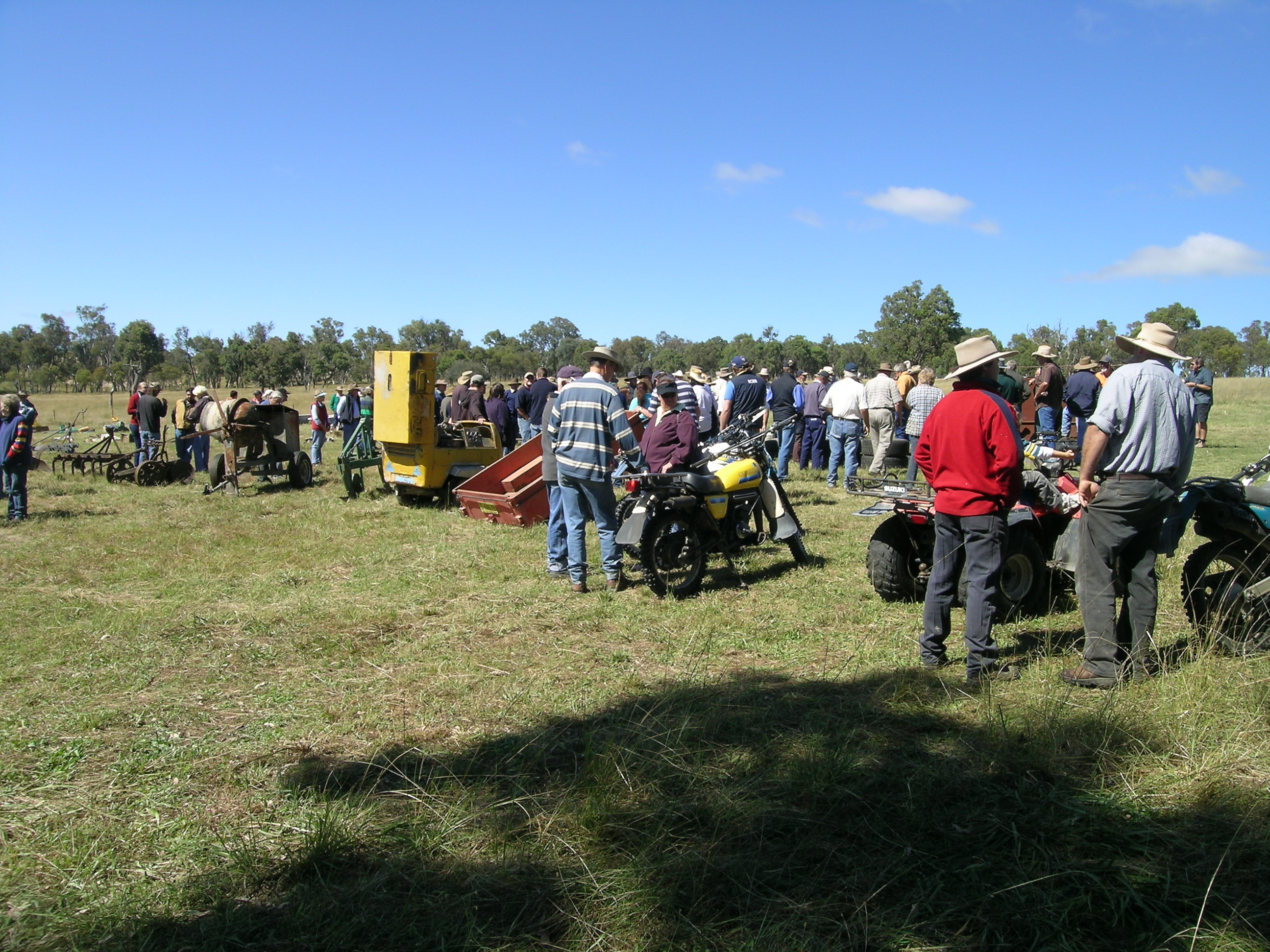 Farm clearing sale, Woolbrook, NSW. These auctions are often held to dispose of farming eqipment and household goods when a property has been sold.